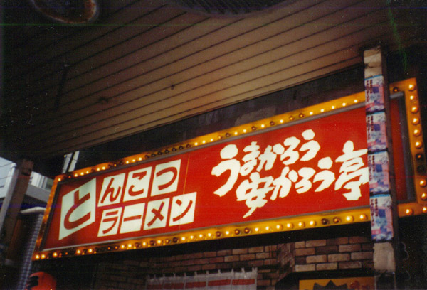 Umakarouyasukarou-Tei Kameido. This restaurant was owned by Aum Shinrikyo